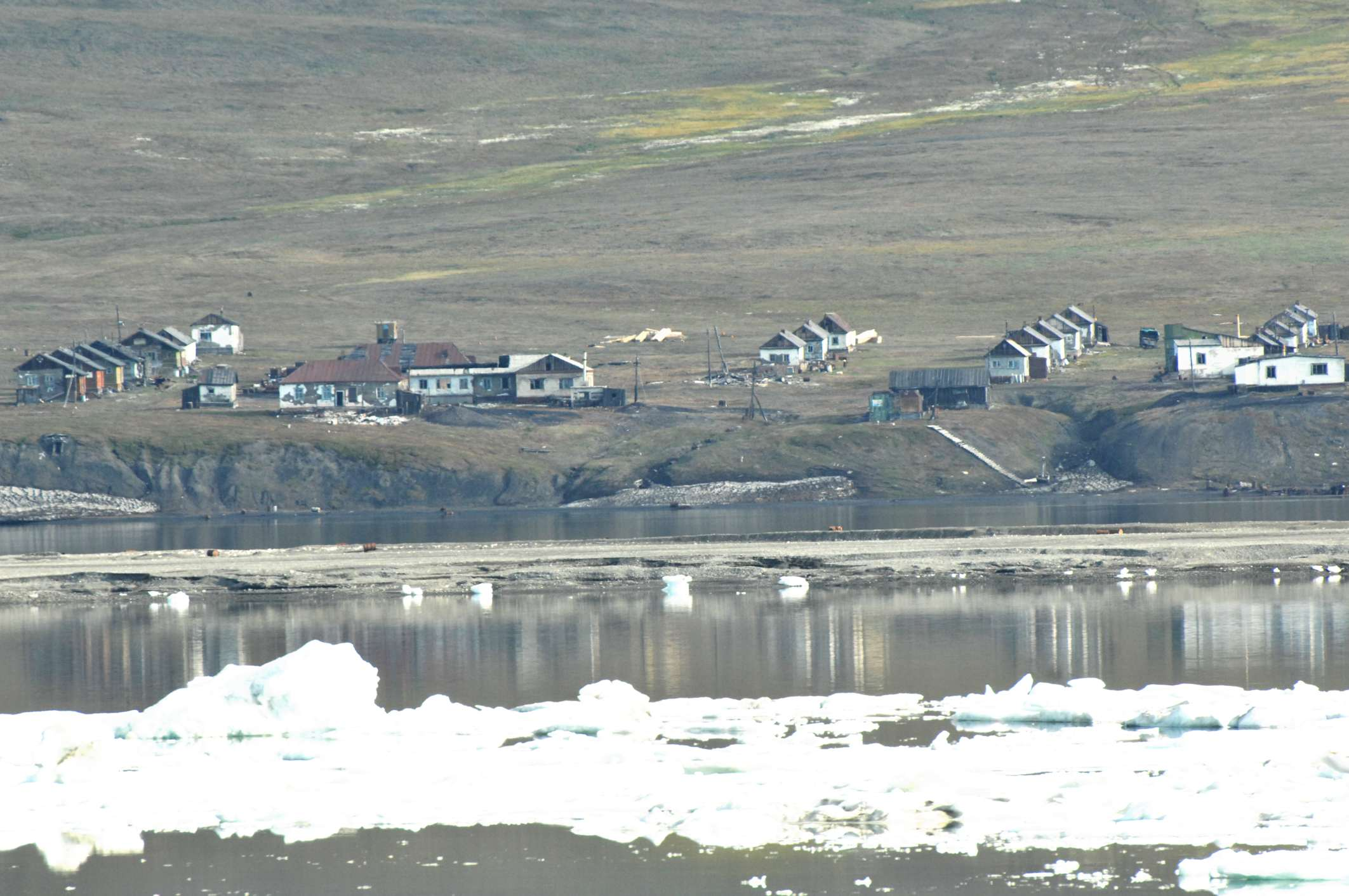 Abandoned village Ushakowskoje (Wrangel Island, Chukchi Sea, Russia)